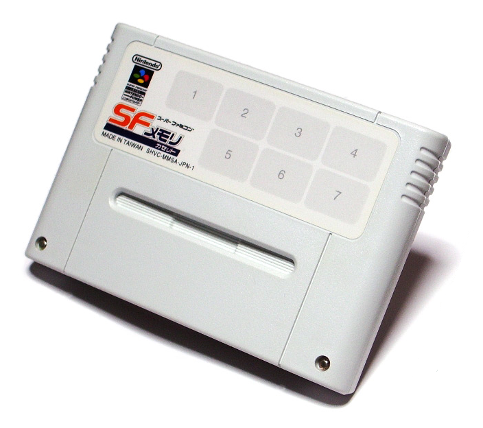 SF Memory Cassette for Nintendo Power